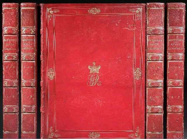 "Bibliothecae Regiae Catalogus", printed by W. Bulmer & W. Nicol of London. A catalogue of books in the library of George III